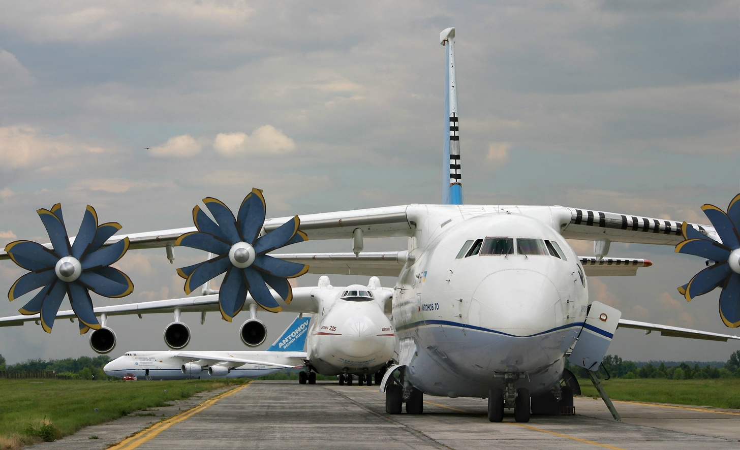 Aviasvit-XXI airshow: a flying day's evening of the Antonov family homebase - looks like rent a car...go plane; all the doors are friendly opened and the ladders invite to step aboard - just come in and try ;)